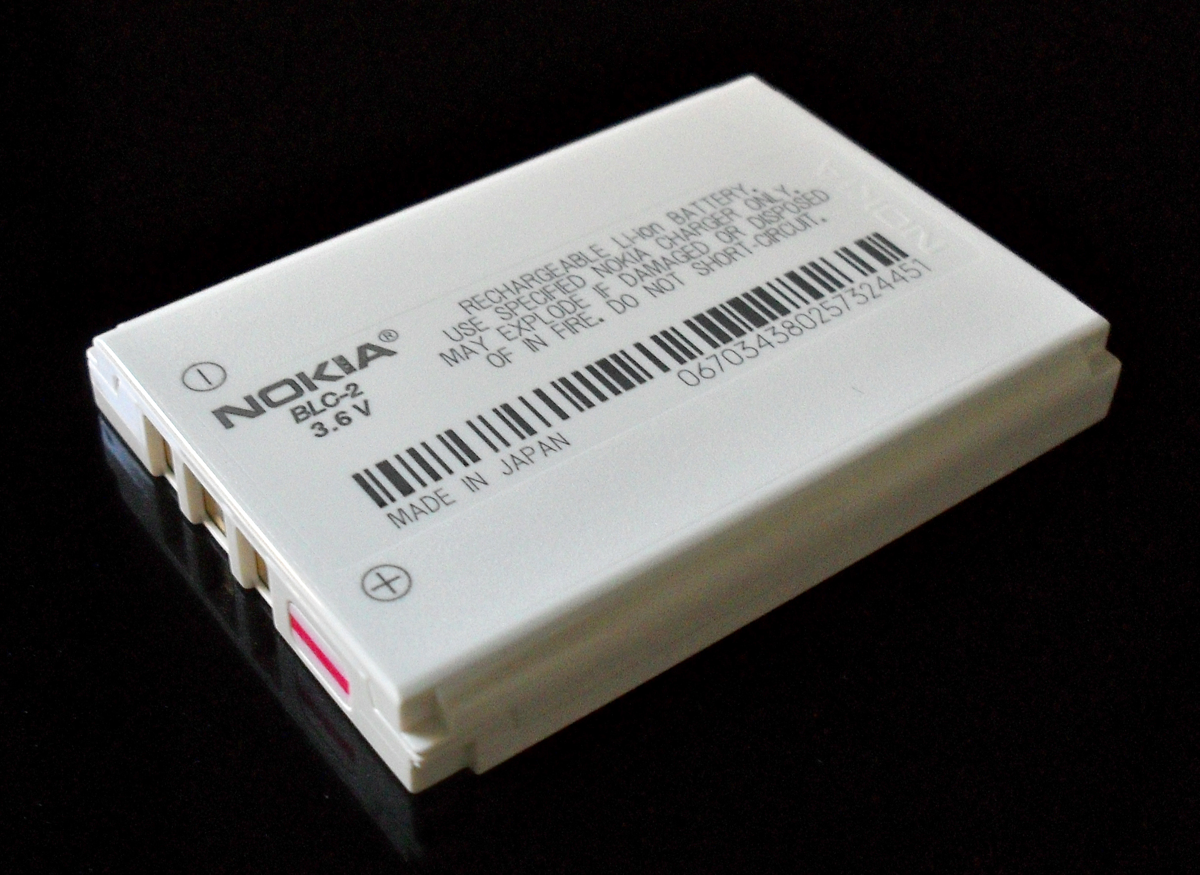 Nokia Li-ion Battery.